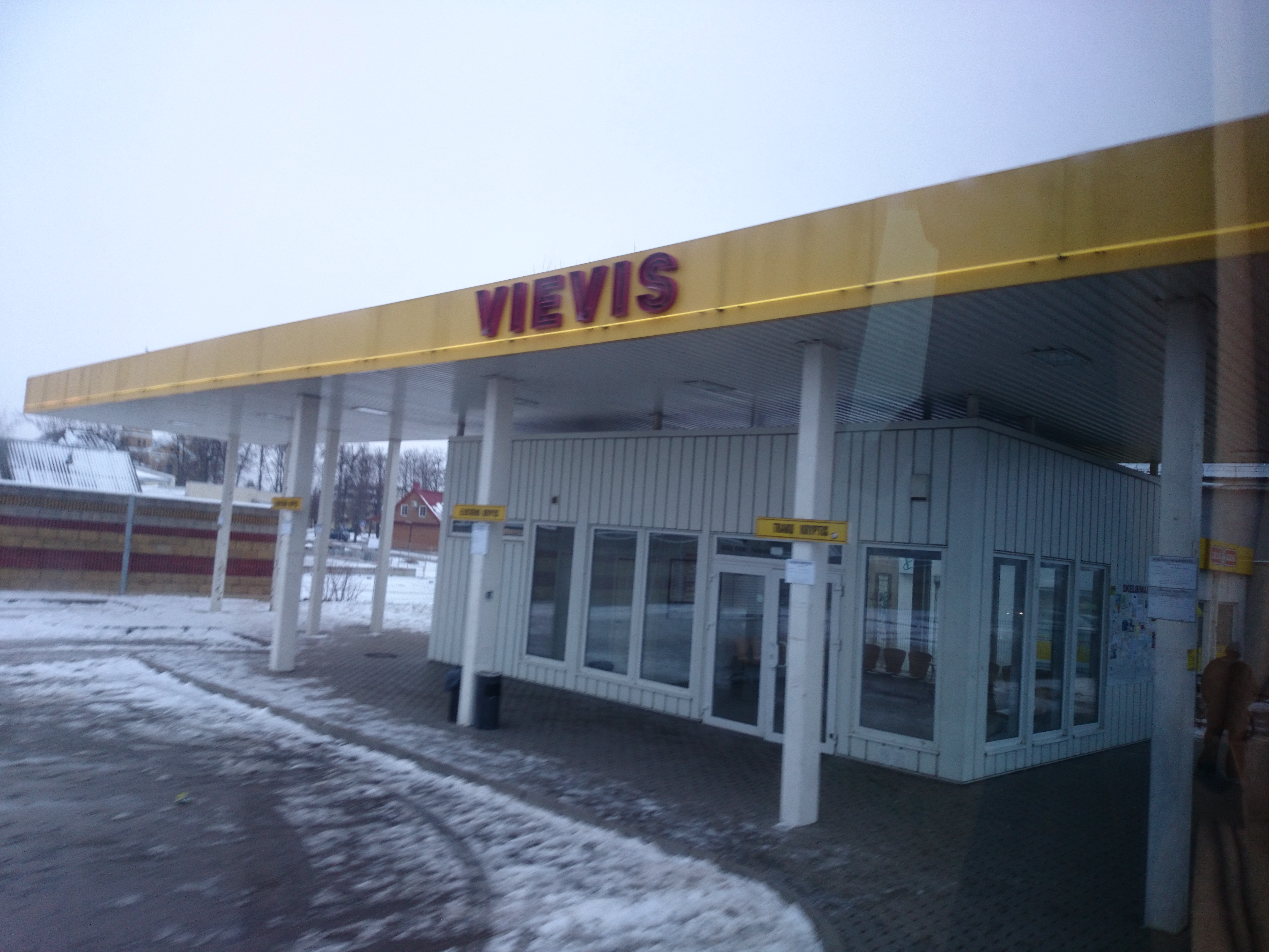 Vievis bus station